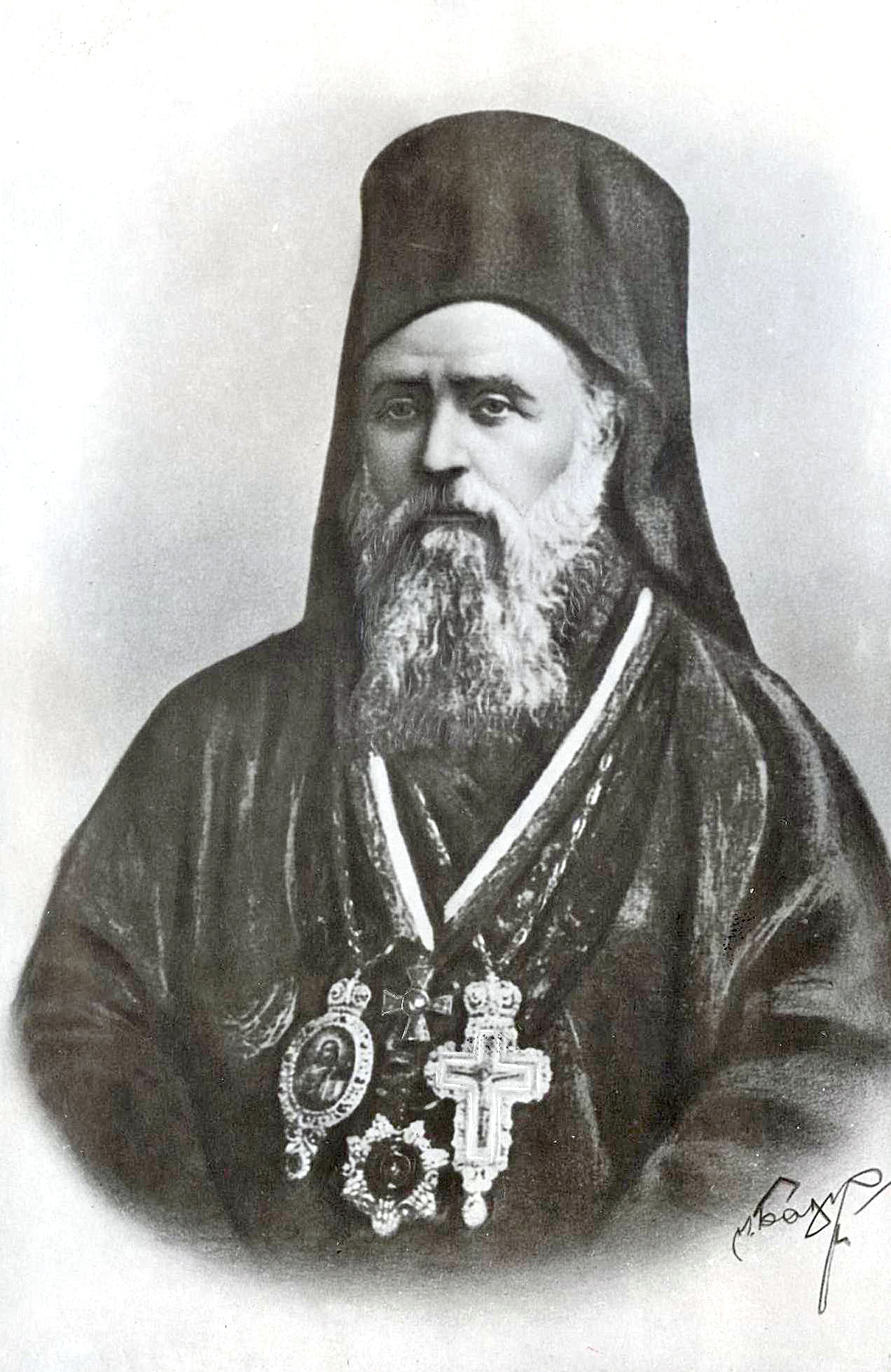 Panaret, Bishop of Plovdiv Eparchy